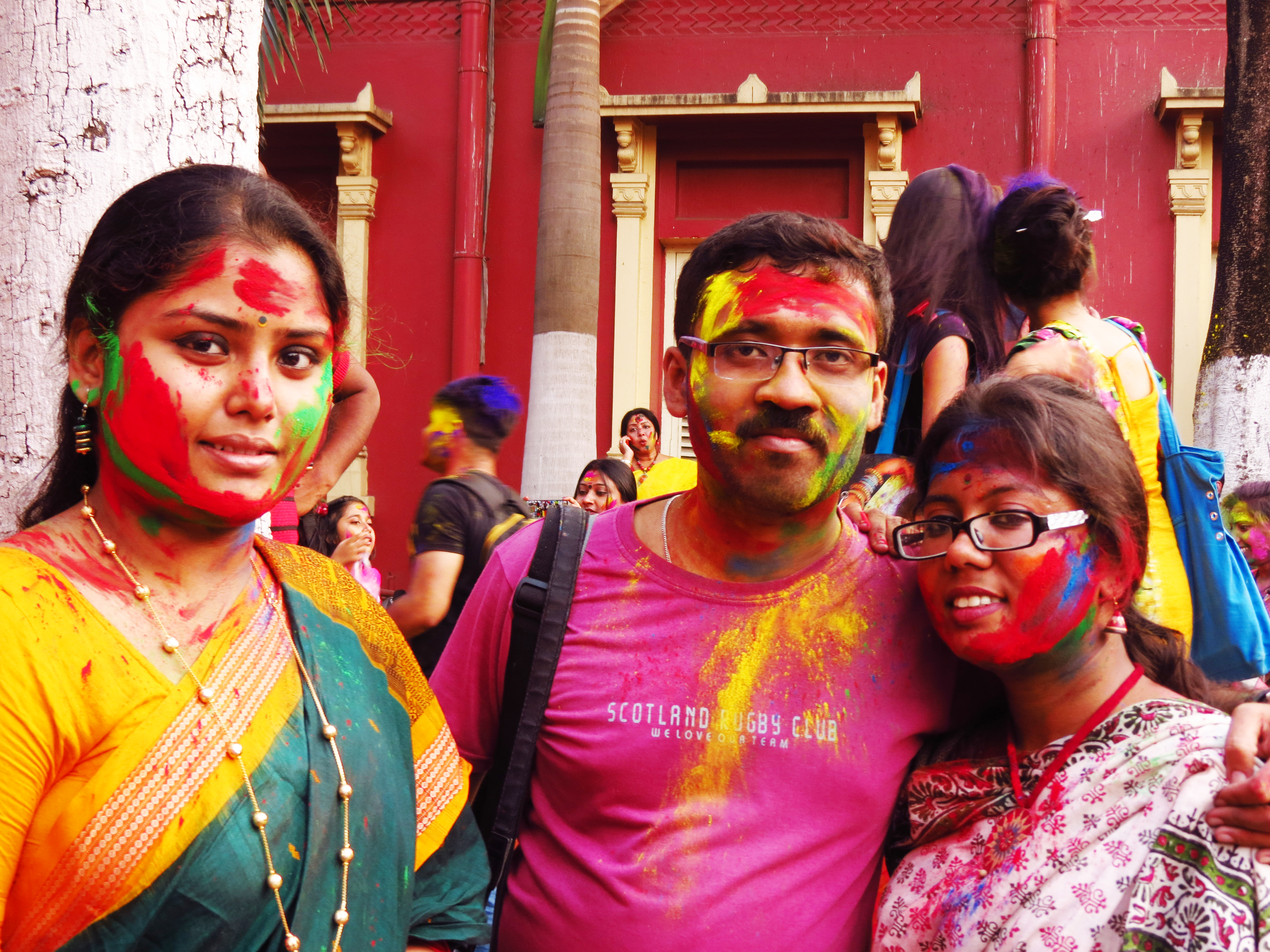 Dol Khela at Thakurbari begins at the end of the cultural programme or Basanto Utsav